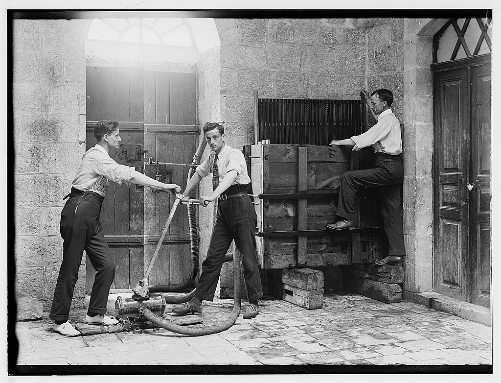 Title: Gamil [i.e. Jamil] and Najeb [i.e. Najib] Albina and Lewis Larson [i.e., Larsson] at the cinema developing work at A.C. [i.e., American Colony] Abstract/medium: G. Eric and Edith Matson Photograph Collection Physical description: 1 negative